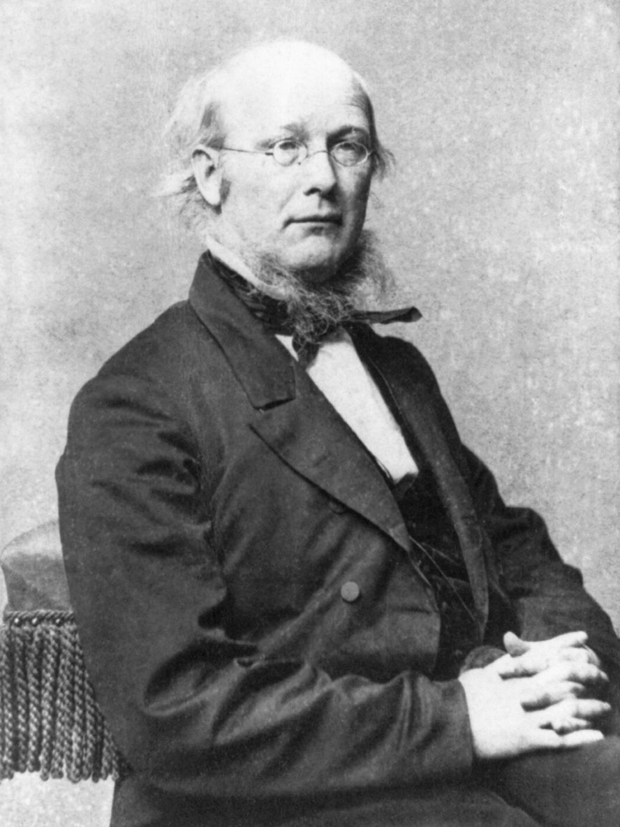 Horace Greeley, American newspaperman and politician. Portrait, half-length, seated, facing right. Photographic print. From the Hoxie Collection.